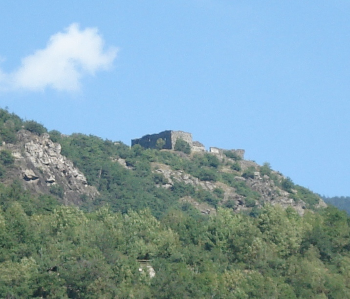 Ruins of Villa castle in Aosta Valley